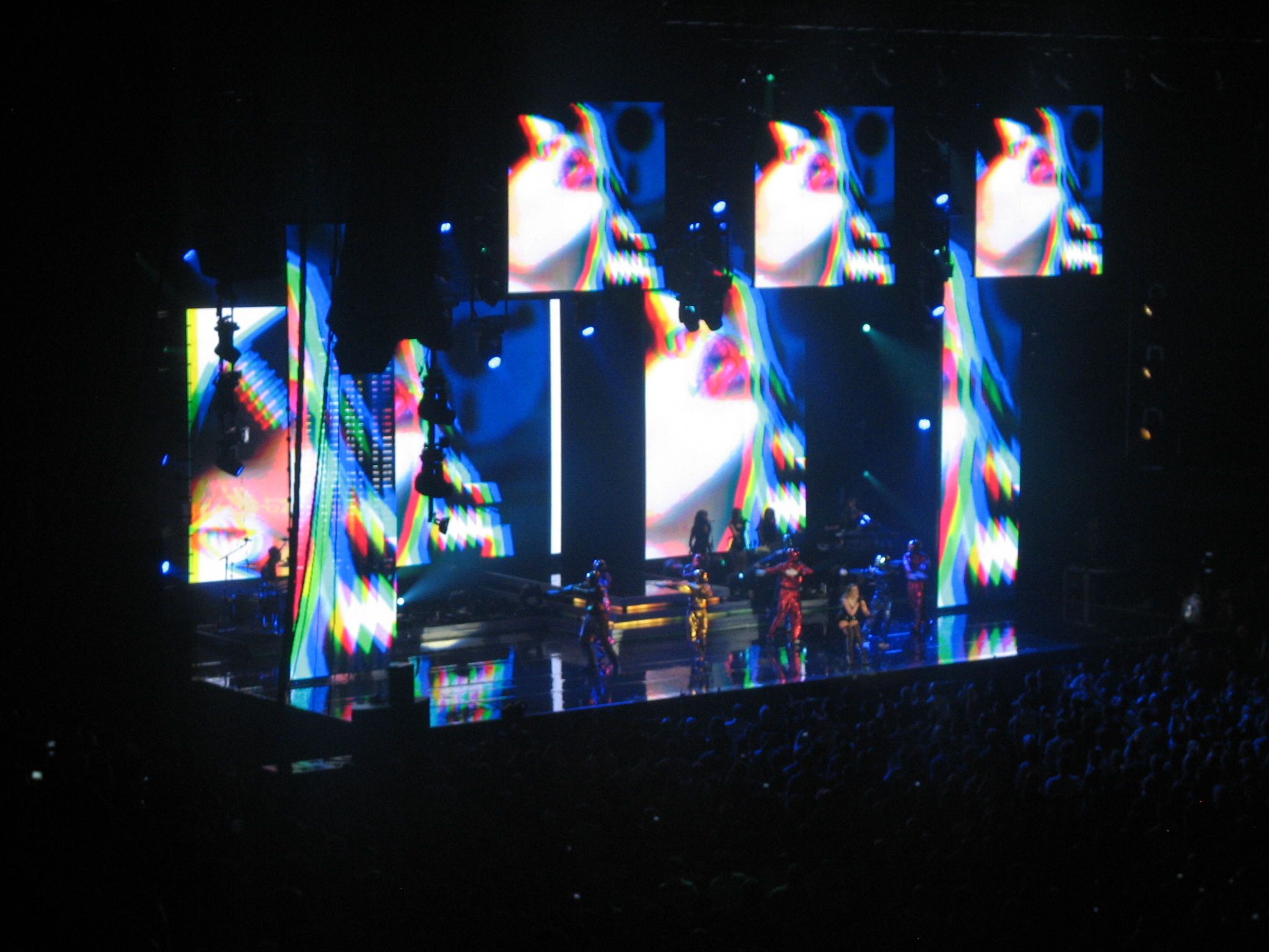 Kylie Minogue performing "In My Arms" on her For You, For Me Tour at the Air Canada Centre, Toronto